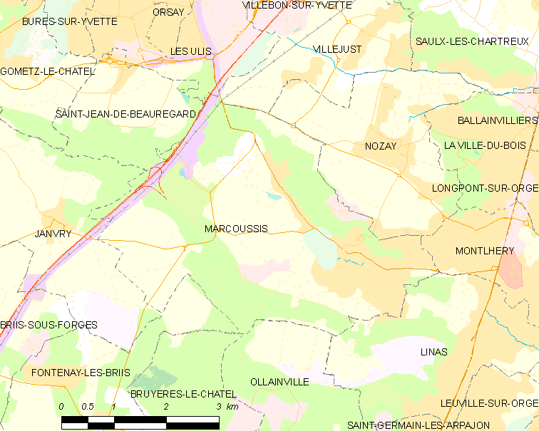 Map of French municipality Marcoussis